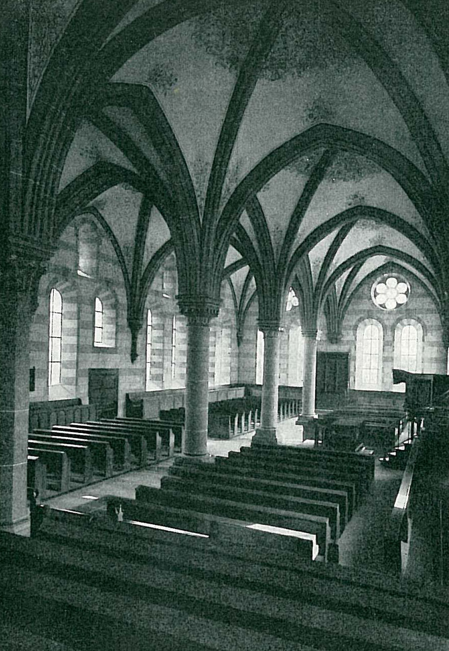 historical view of Schönau